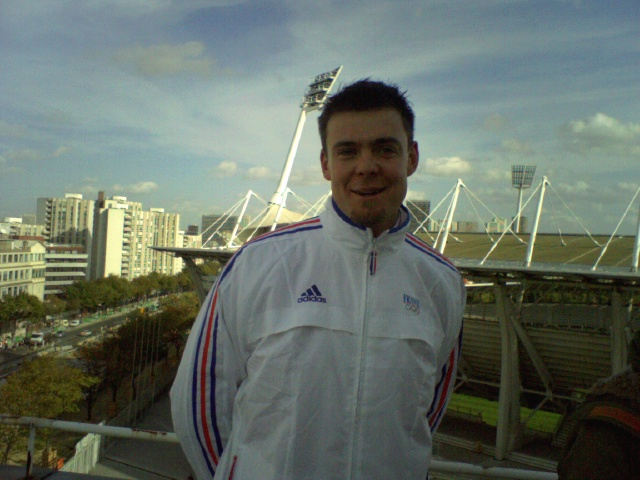 French ski racer Antoine Dénériaz in Paris, november 2005